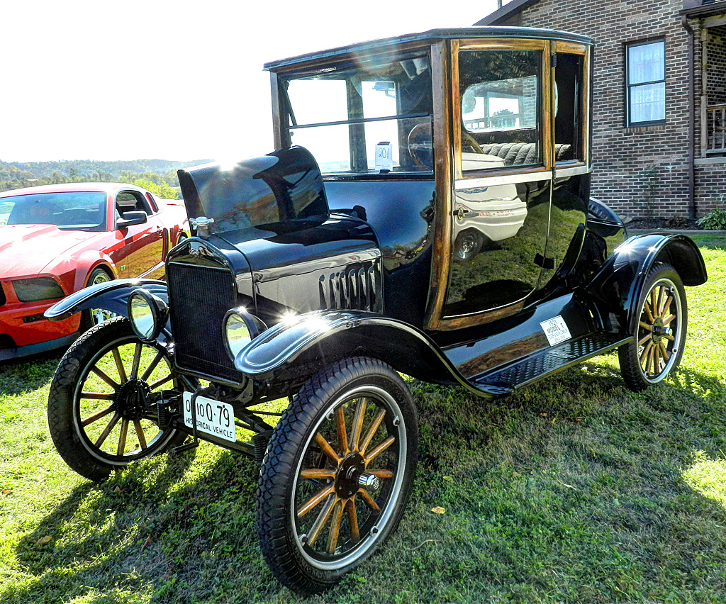 1921 Model T Ford. The oldest of the 330+ registered cars that I saw at the 2011 Jack Roush Day show in Manchester, Ohio. This Model T was the only car in the show that was older than I am.